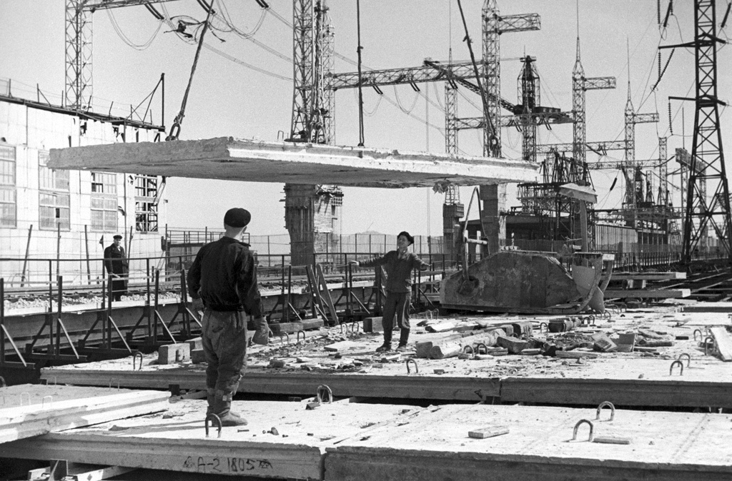 “Construction of Volga hydroelectric power station”. Construction of Volga hydroelectric power station. Builder laying ceiling boards on the dam road bridge.